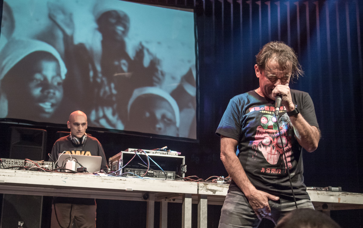 Esplendor Geométrico Zaragoza 5 Diciembre 2015